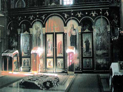 Interior of Rajinovac Monastery, view of iconostasis. Permission found at Serbian wiki (Permission for Православље).